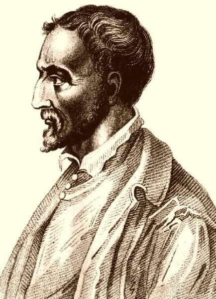 italian mathatics